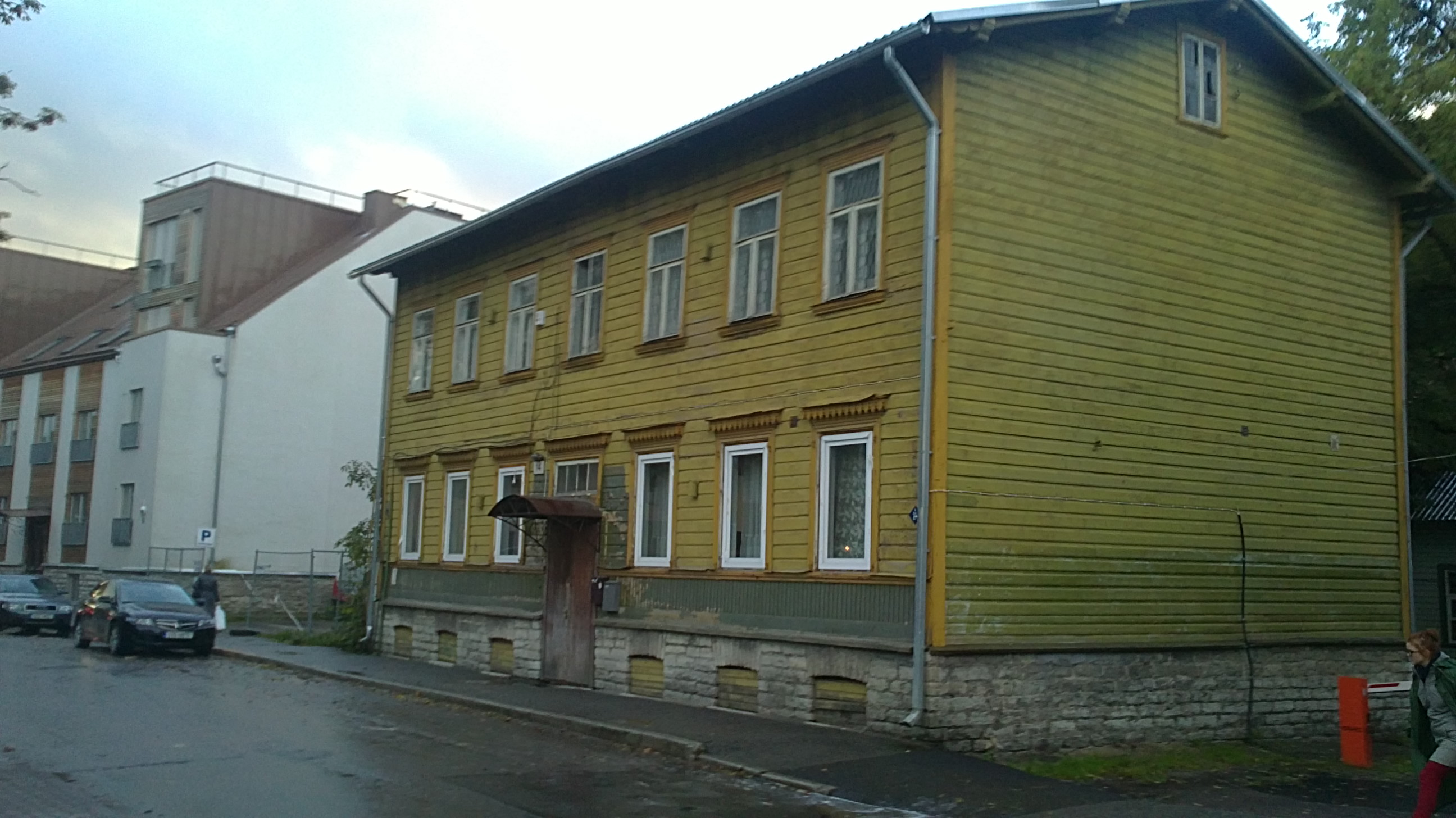 Buiding in Tallinn, Tatari str. 14